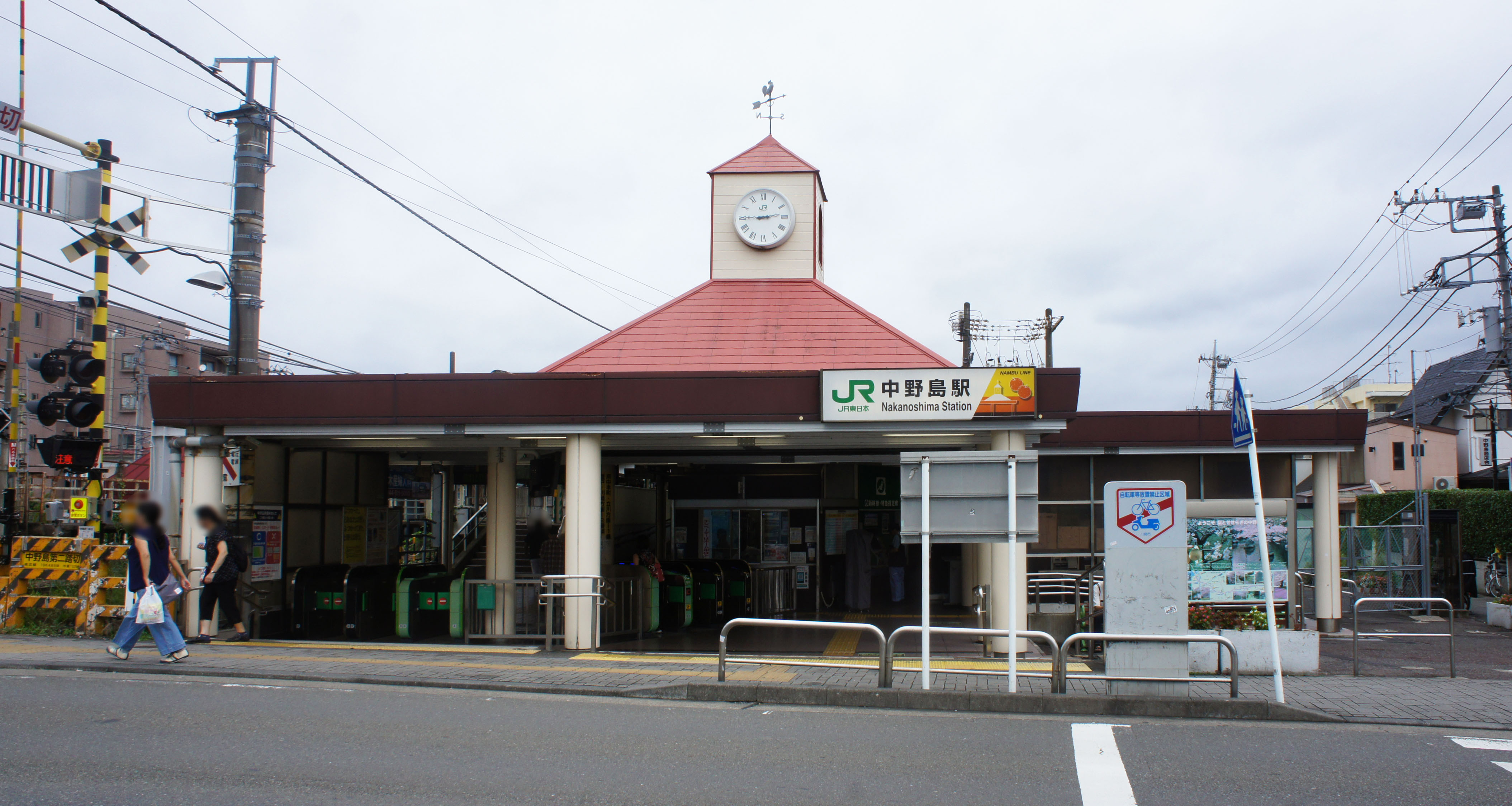 Station building of JR Nambu-Line Nakanoshima Station